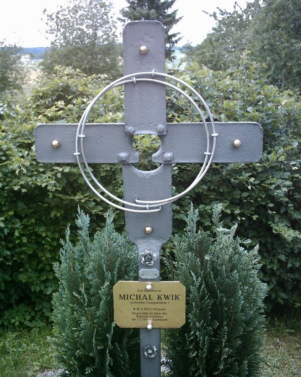 German-Polish reconciliation Cross in Aulzhausen (Affing municipality); initiated, produced and installed by Johannes Grabler; inauguration in June 1994 by Father Dominikus Kirchmaier and provost Wacław Plawski (from Łobez); Inscriptions (translation): German-Polish reconciliation 1994 To commemorate MICHAŁ KWIK(Polish forced laborer) * 1922/9/28 in Różaniec Executed as victim of National Socialism on 1944/2/7 at Aulzhausen